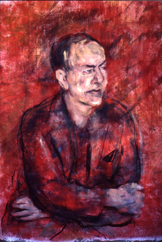 Collection of Carnegie Mellon University: Herbert A. Simon - commissioned portrait, "Herbert[1] asked me to do this portrait because he felt the first one Image:Herbert simon tan d.jpg was too flattering" (Richard Rappaport) [2].